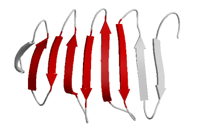 Description: Cartoon representation of the Beta-meander motif. Source: Molscript v.2.1.2 generated, rendered by Raster 3-D. Date: June 2, 2007 Author: Jason Koval & Kevin Cartwright Permission: Self-Owned